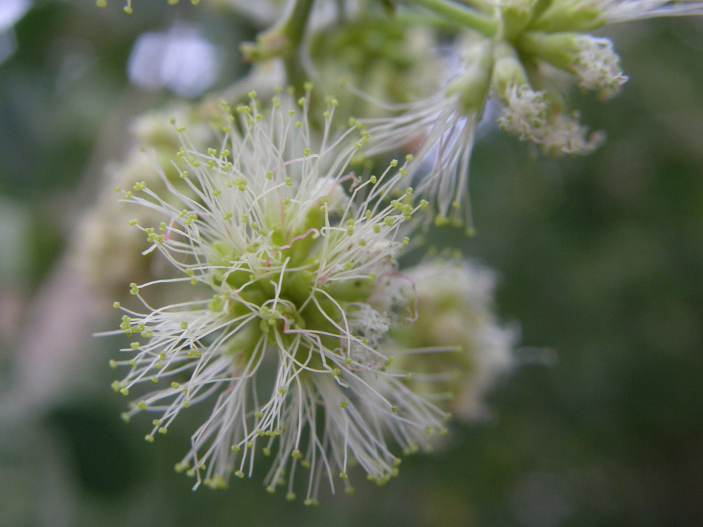 A close up of a Pithecellobium dulce flower